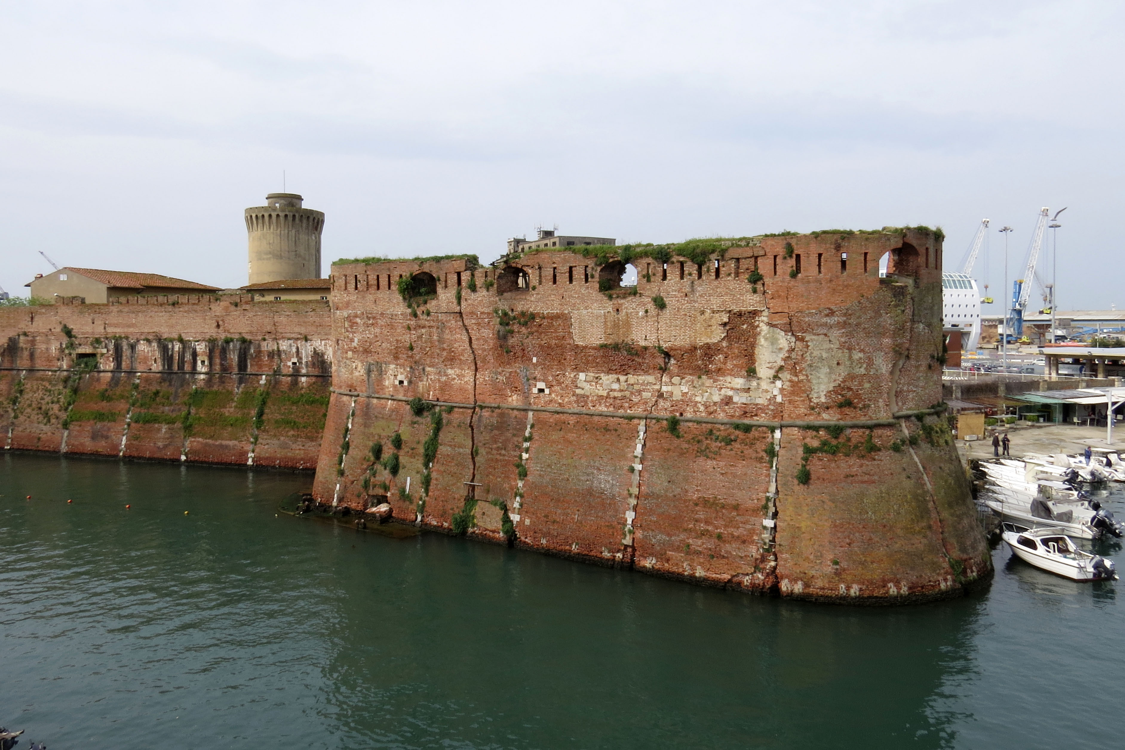 Capitana bastion and Matilda's Keep of the Fortezza Vecchia, Livorno